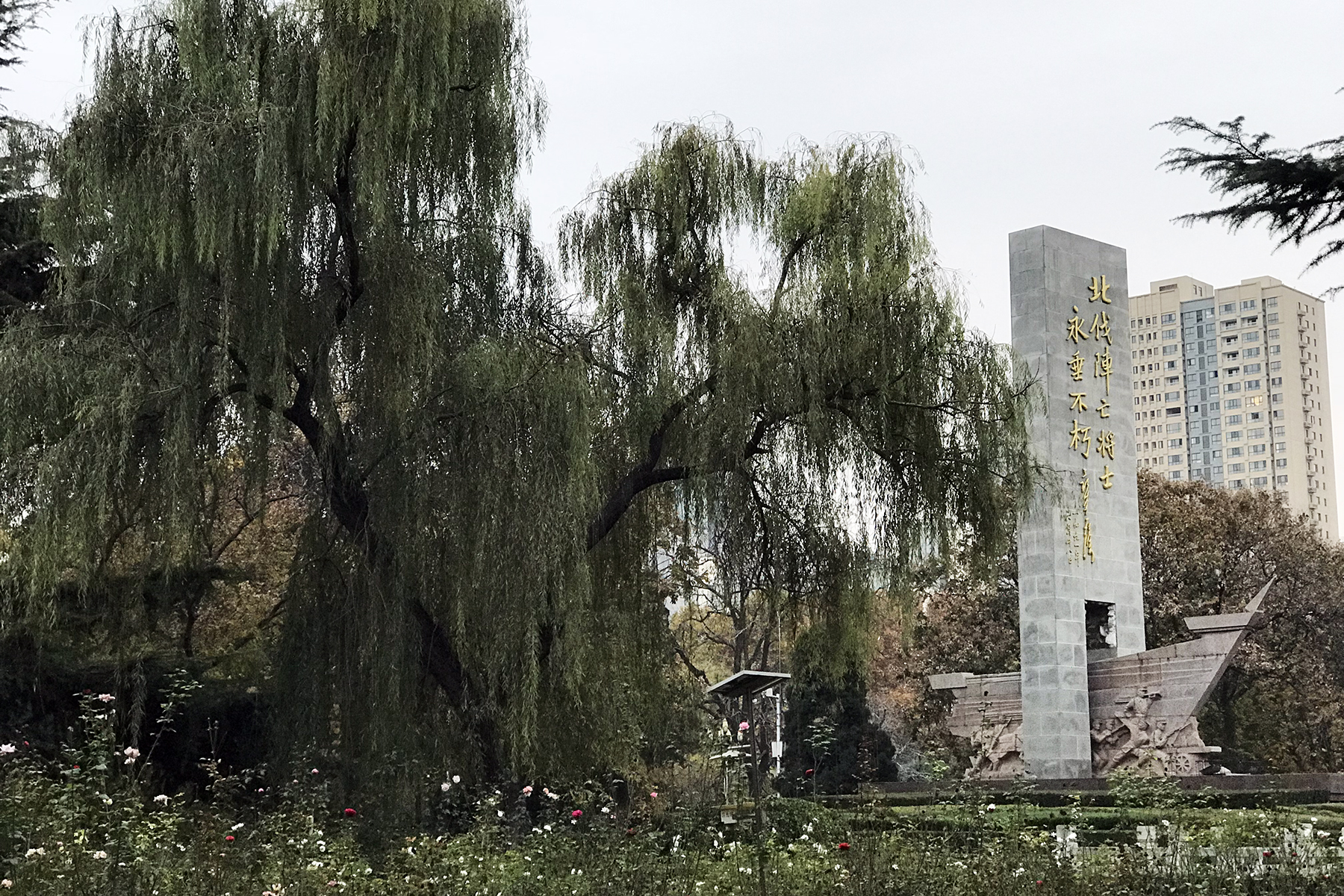 Bishagang Park